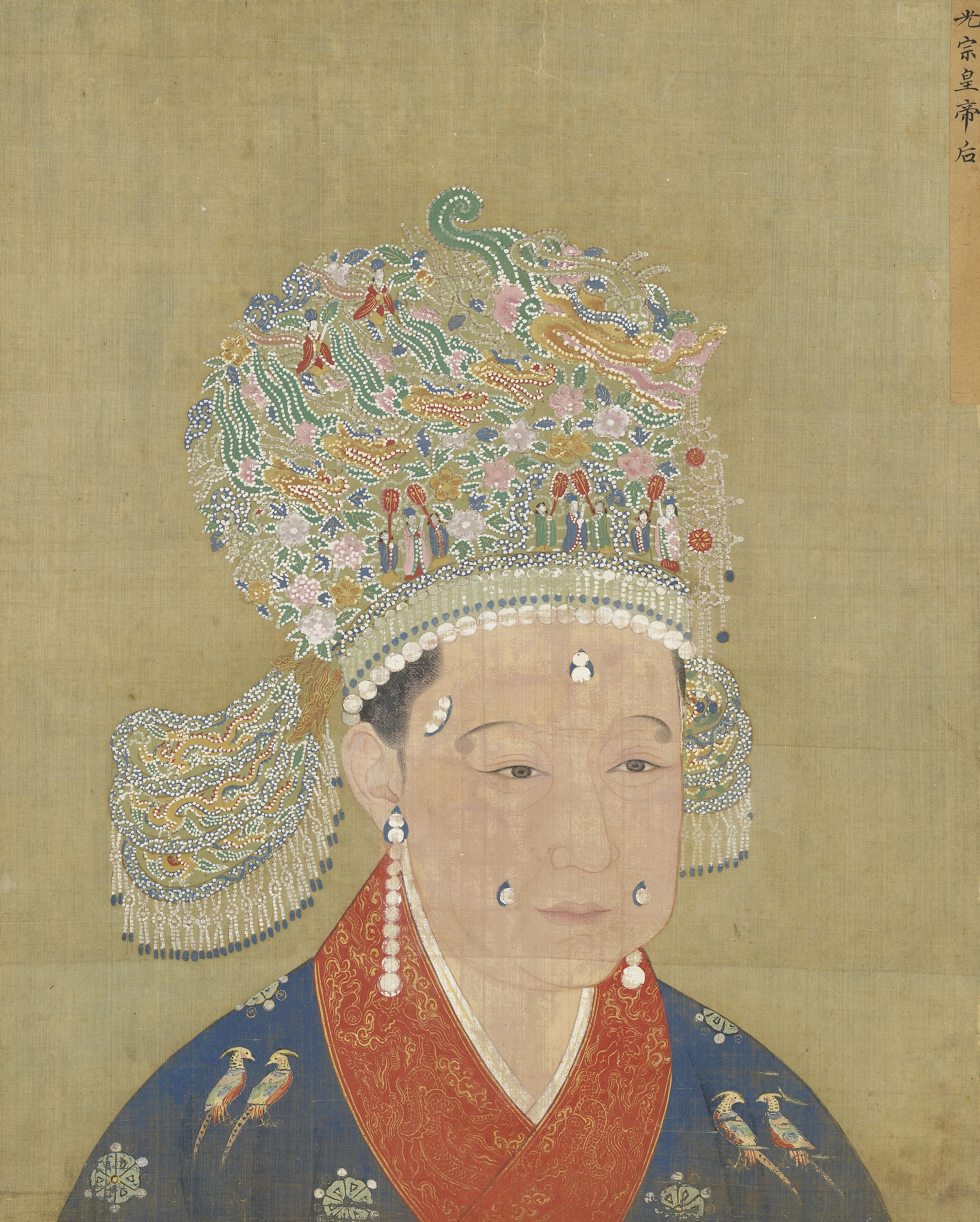 The Official Imperial Portrait of Song Dynasty's Empress